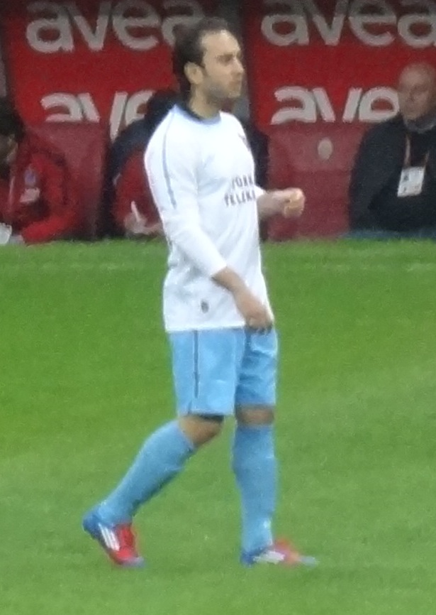 Olcan Playing for Trabzon against GS